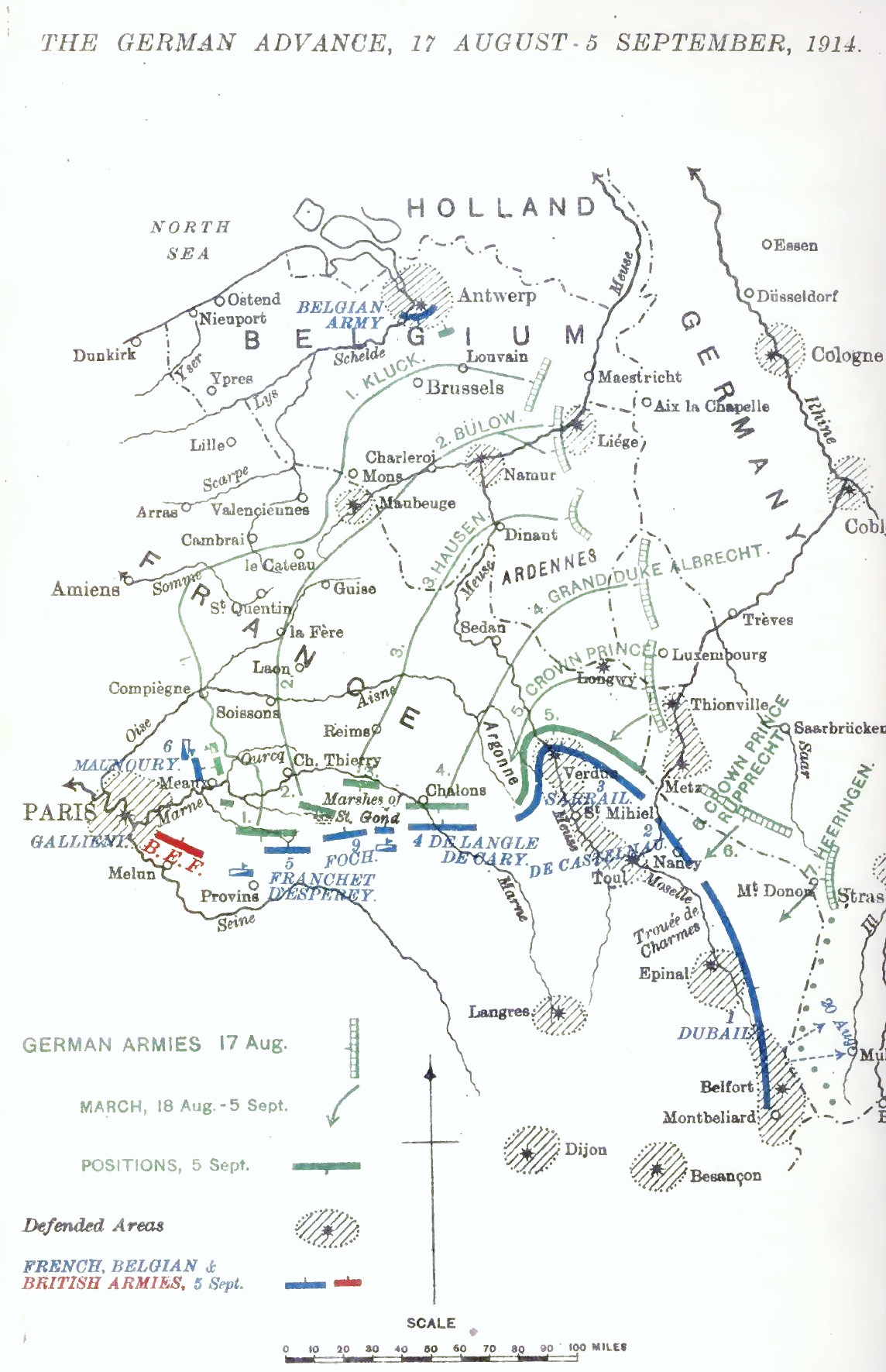 German invasion of France 1914